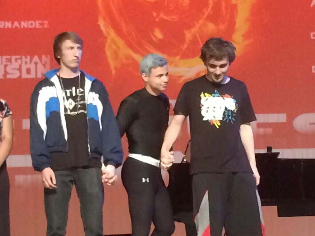 Members of the Urban Enterprise Show at a local film festival.